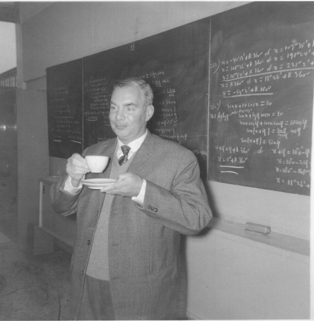 Mathematics teacher Paul Eduard Lepoeter during a break at the Rijnlands Lyceum Wassenaar; photo made around 1963 by Jan Blankespoor